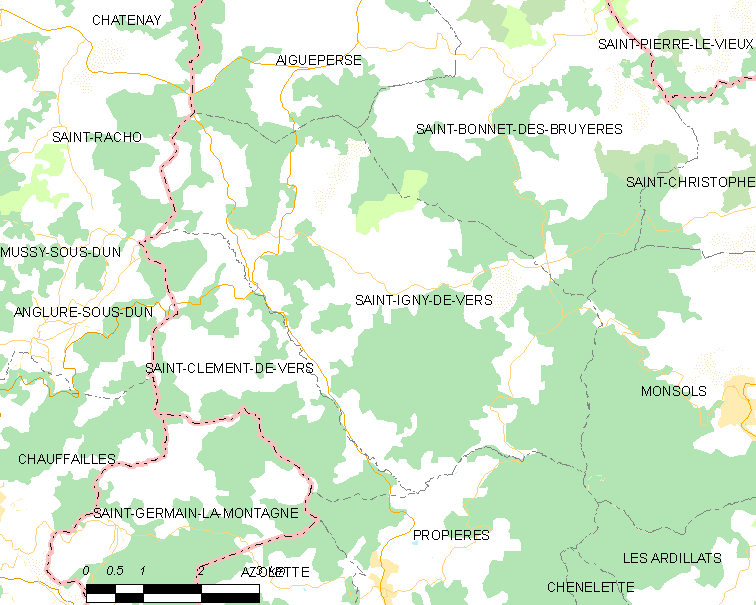 Map of French municipality